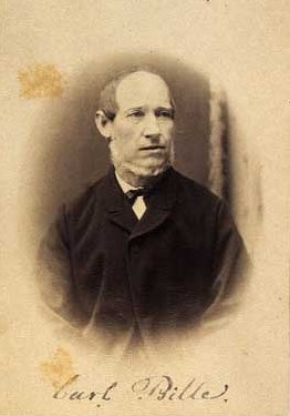 Carl Ludvig Bille (1815-1898), Danish marine painter